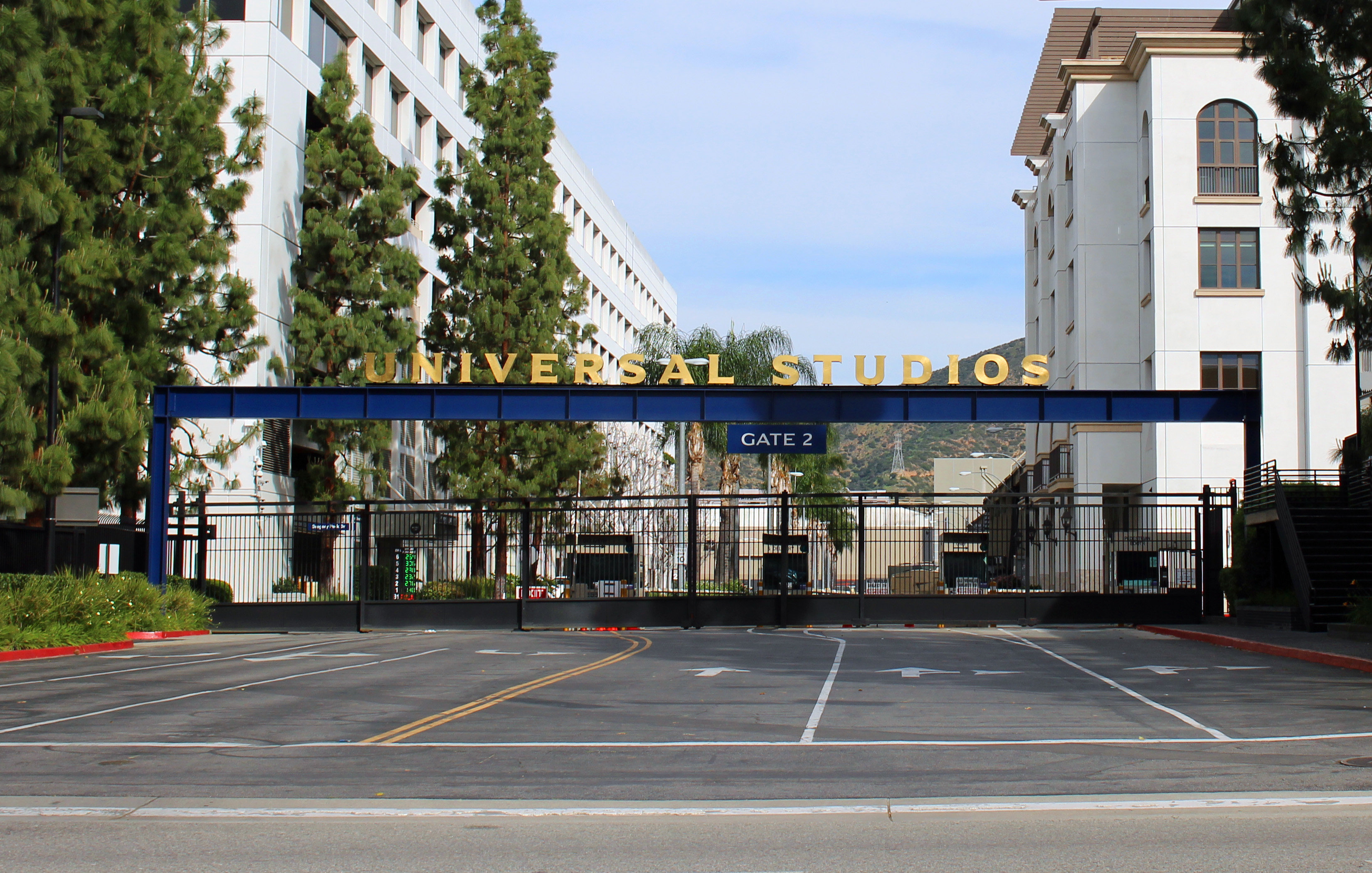 Gate 2, Universal Studios, Universal City, California. Photographed by user Coolcaesar on November 9, 2014.